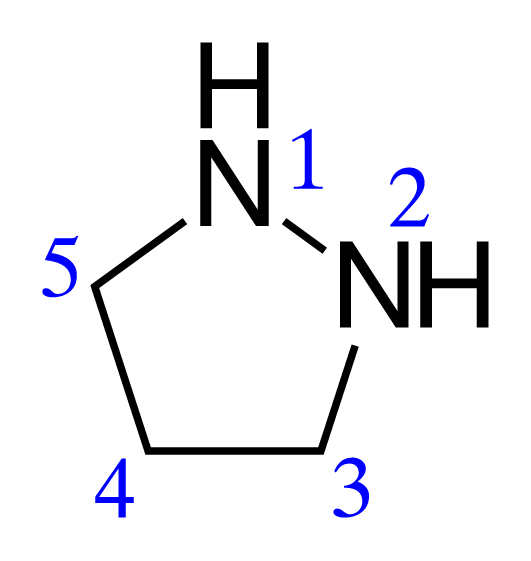 chemical structure of pyrazolidine